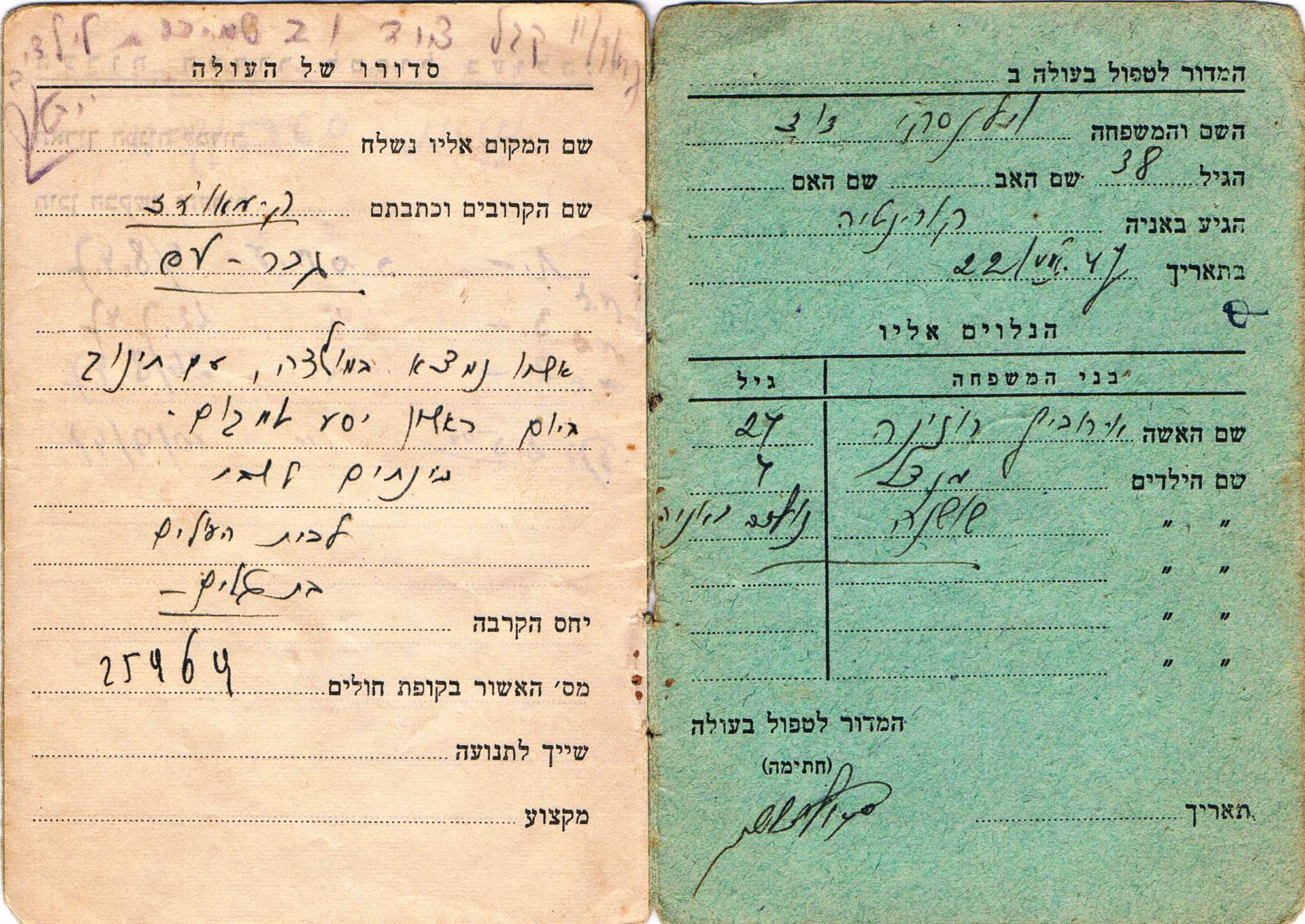 Aliyah Dalet – Documentation - inside. Immigration to Israel ca. 22.7.1947